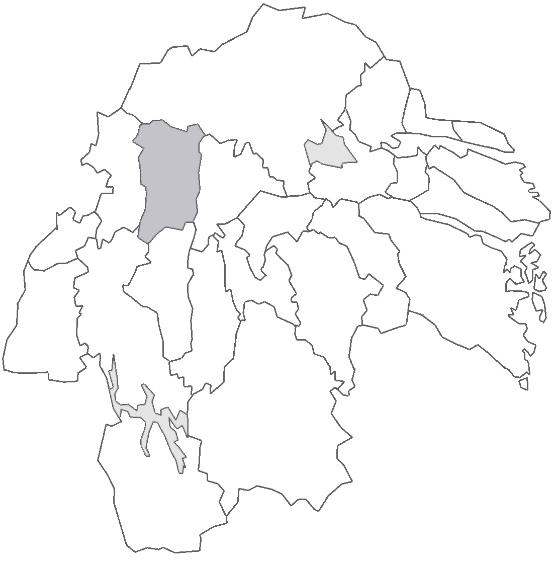 Map decribing the location of Boberg Hundred in Östergötland County, Sweden.